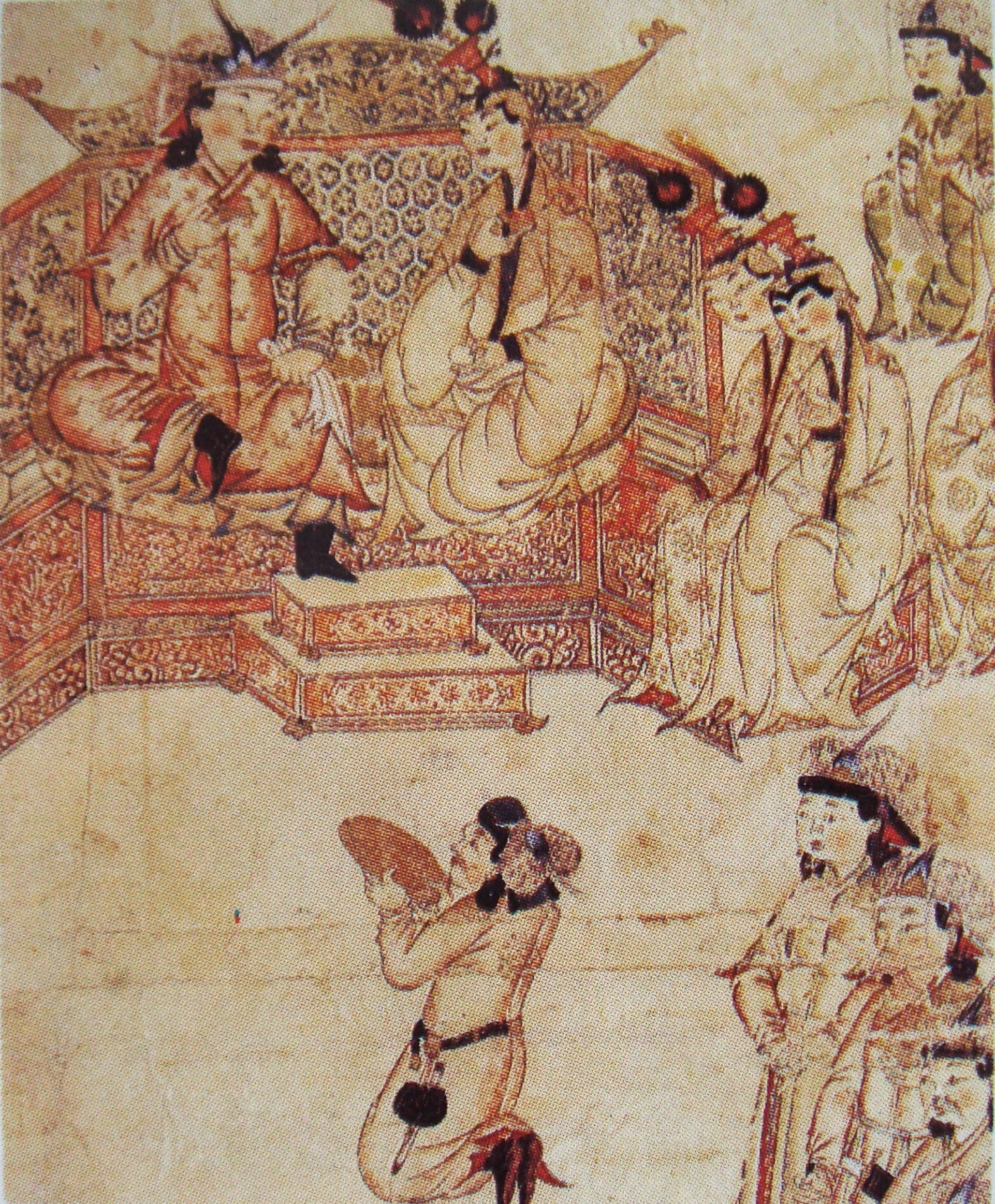 Ghazan_with_wife_at_his_court. Mongol document, end of the 13th century. Source: Hachette Atlas Histoire de l'Humanite (1989)